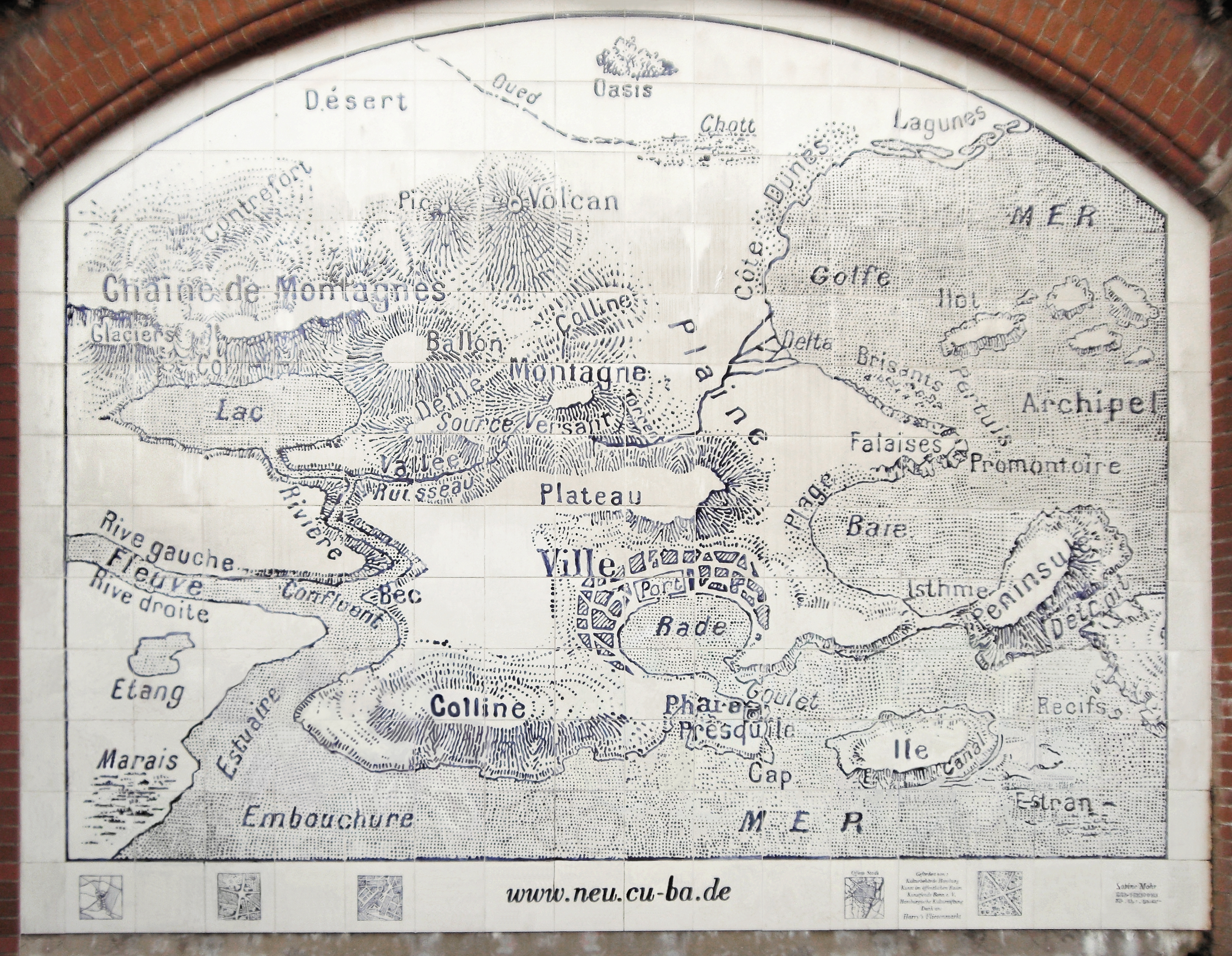 Art in the railwaystation Sternschanze, Hamburg